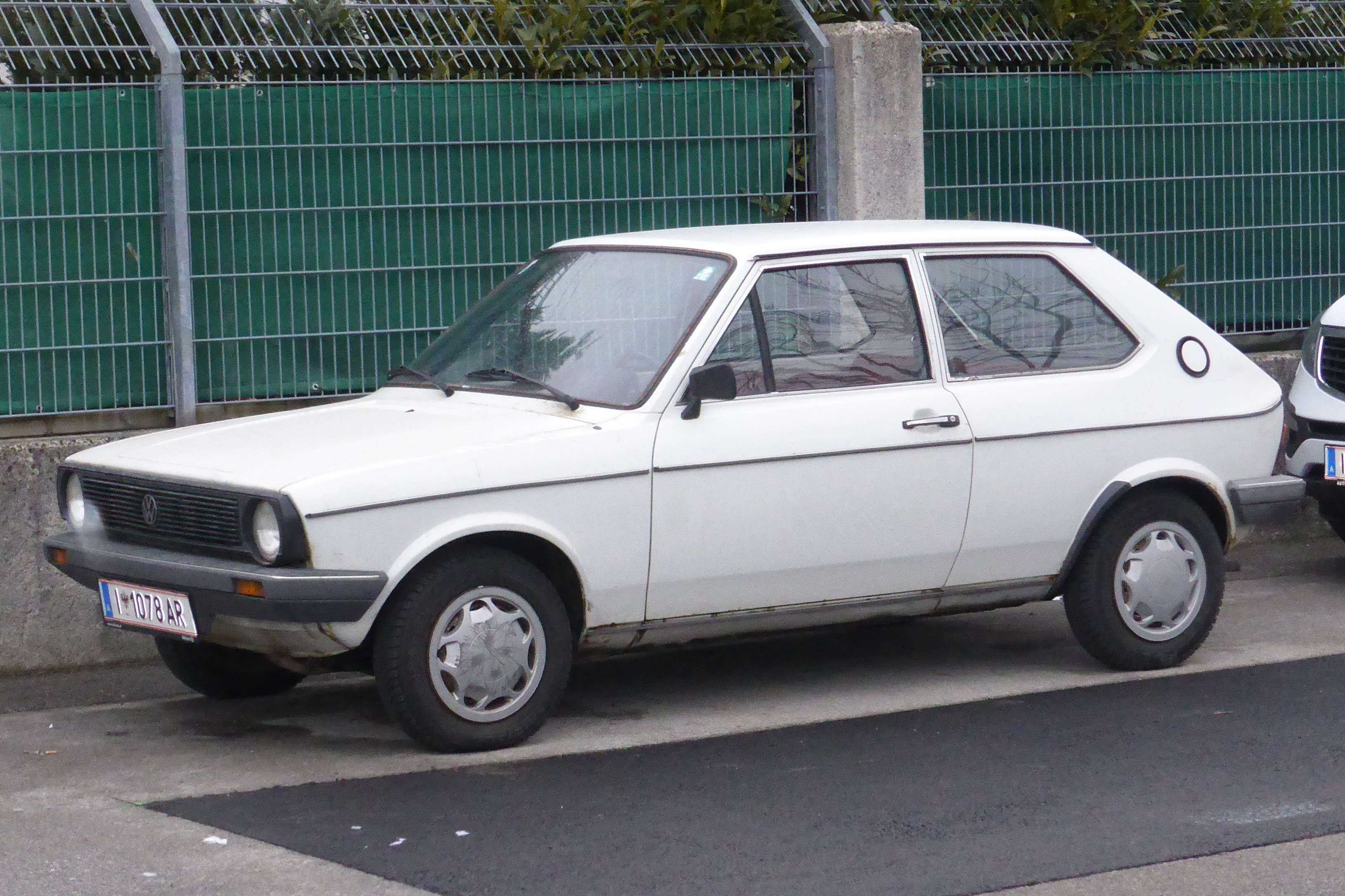 I haven't seen one of these for a long time...